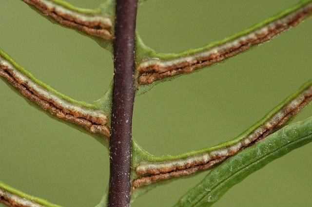 Picture taken in Commanster, Belgian High Ardennes . Species: Blechnum spicant